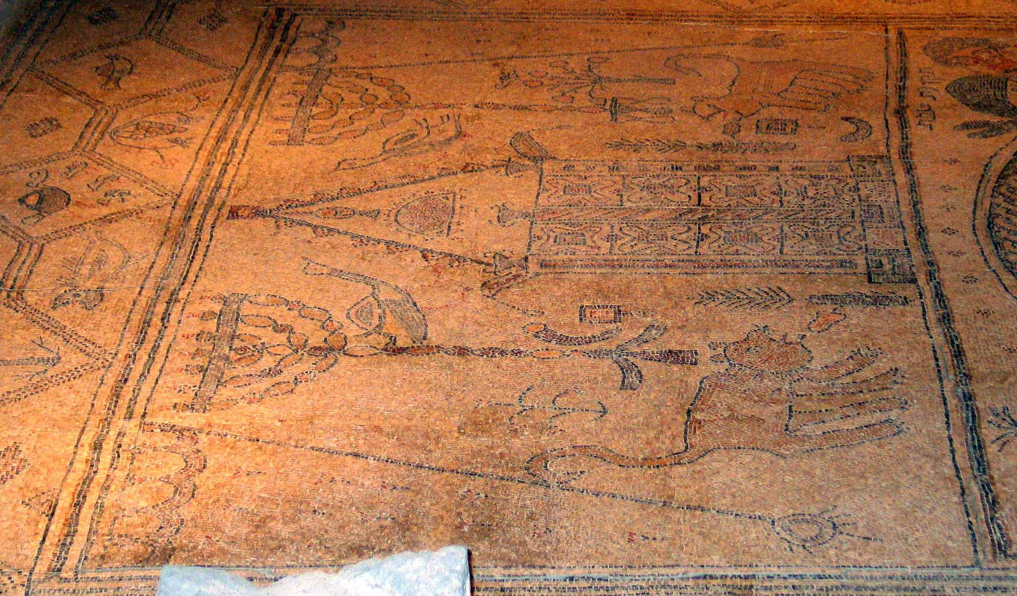 Beyt Alfa national park, Israel.